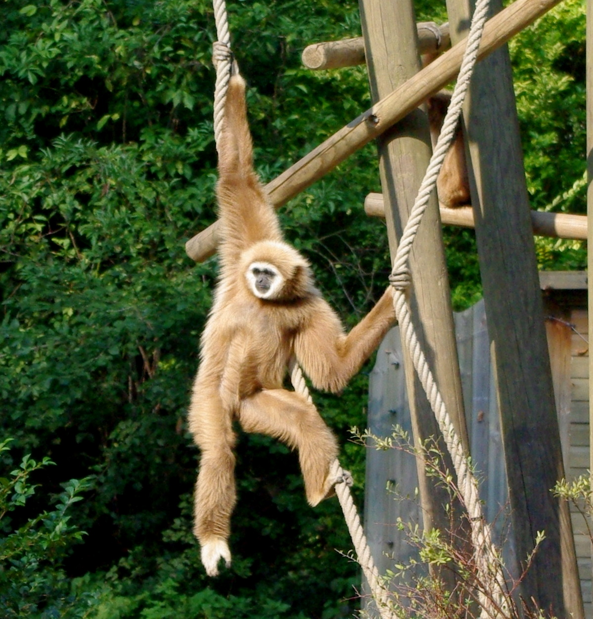 Lar Gibbon in Lille Zoo (North, France)